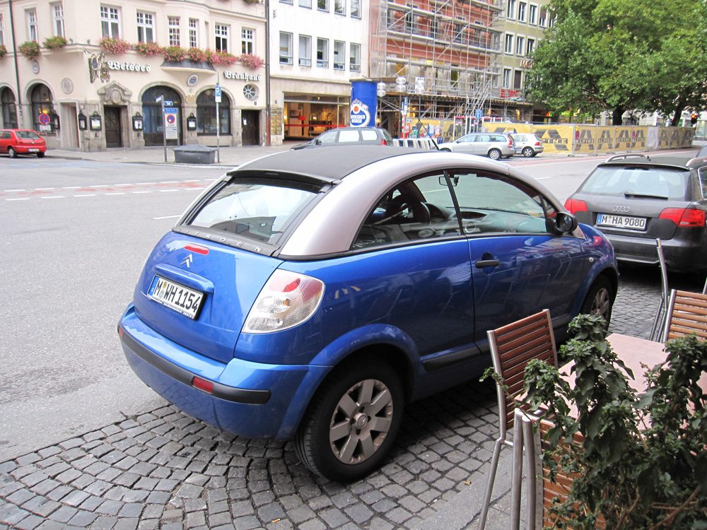 My first full day of my fifth visit to Europe, whose main purpose is to pick up a car, starts with a lovely automotive sight. This is the C3, the current generation minicar from Citroën. This particular example is the "Pluriel" version, which comes with a fabric convertible roof, evoking the key feature of one of Citroën's best-known models, the 2CV. European automotive designs, especially French ones, are absolutely gorgeous, and it is hard to find designs that are as charming on North American roads.